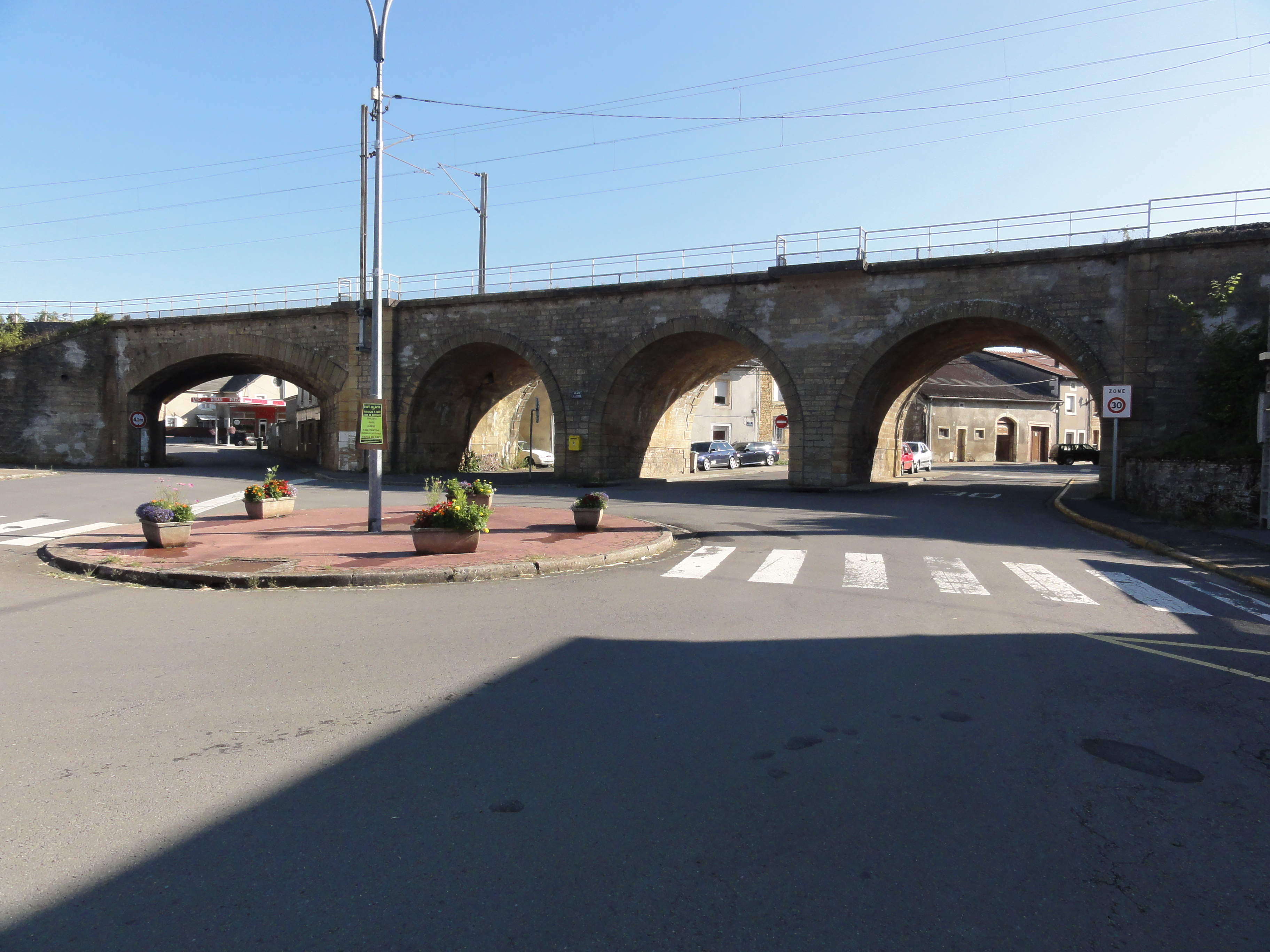 Pierrepont (Meurthe-et-M.) viaduc du Chemin de fer